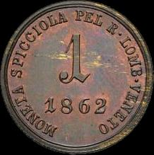 1 soldo, Kingdom of Lombardy-Venetia (1862, Vienna), reverse